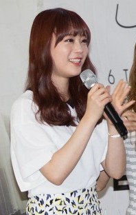 Heo Youngji at a fansigning for Kara's mini album Day & Night on 30 August 2014